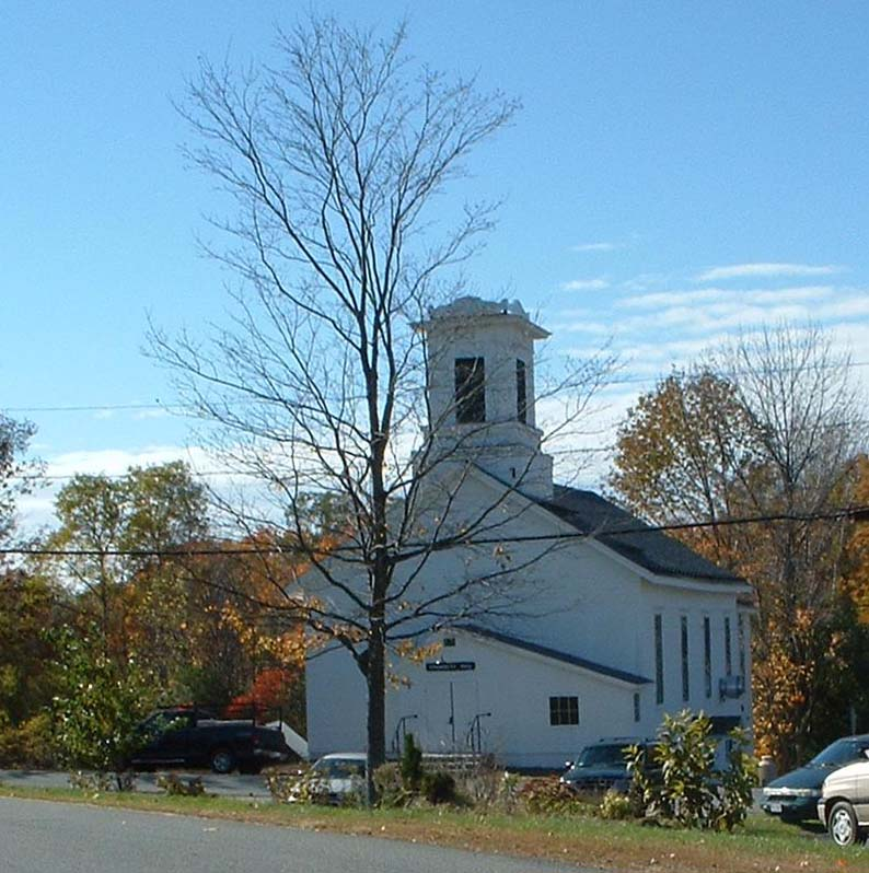 Heath Memorial Hall, site of town meetings in Heath, Massachusetts Heath Memorial Hall, South Rd & W Main St, Heath, MA